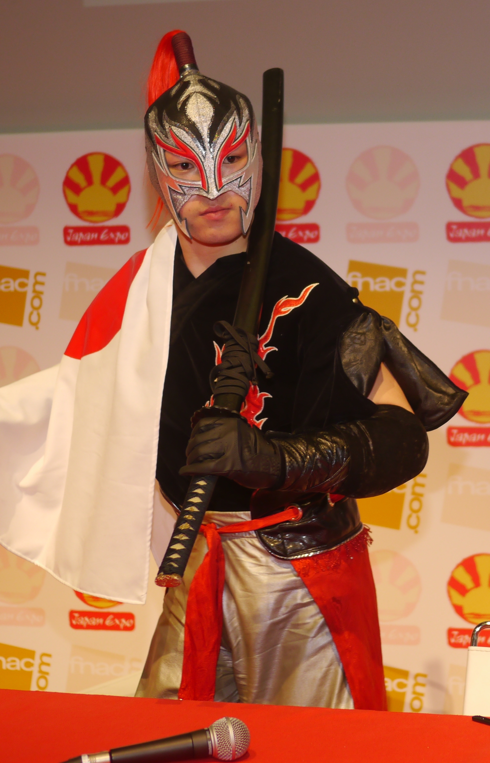 Japan Expo Festival, 12th impact